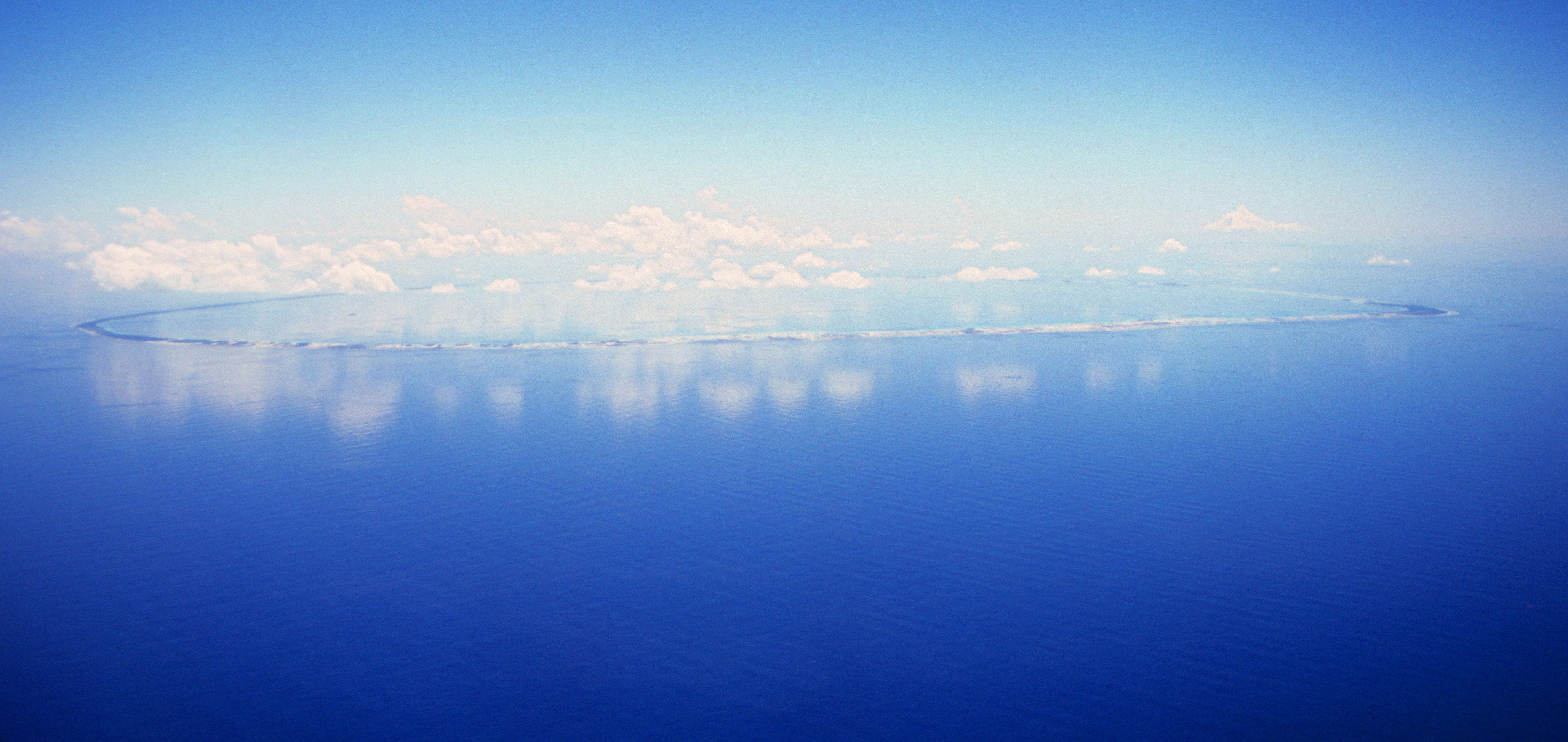 Atoll in the Tuamotu Archipelago of French Polynesia.